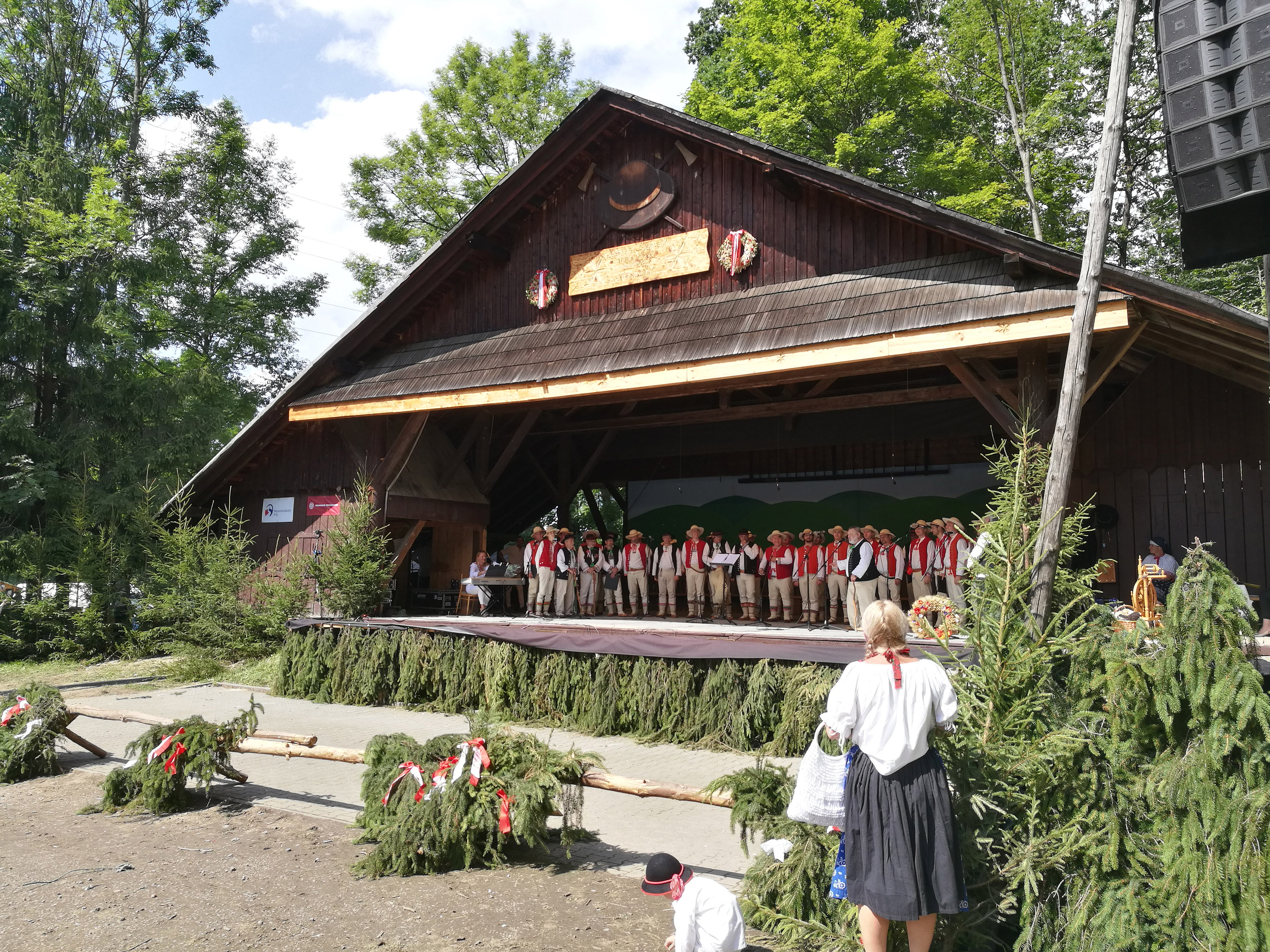 Gorol men's choir during the Gorolski Święto 2019